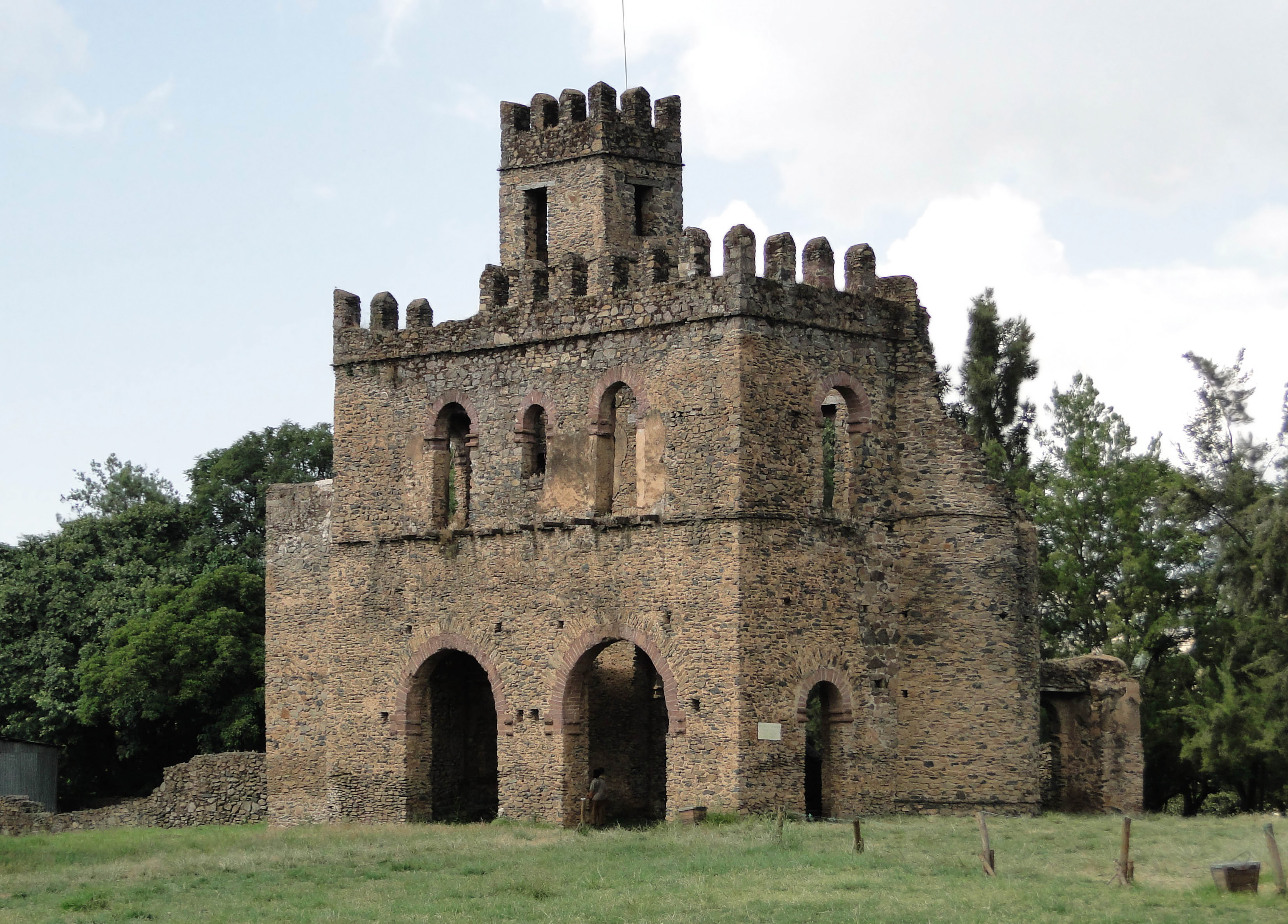 Chancellery of Yohannes I (also named Fasilides Archive) in the Fasil Ghebbi, Gondar, Ethiopia